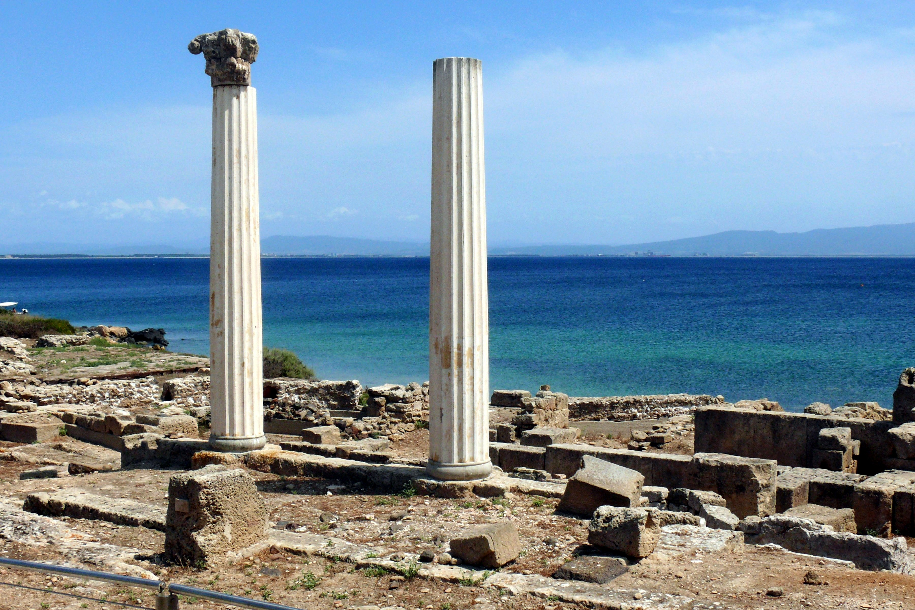 Colonne romane a Tharros